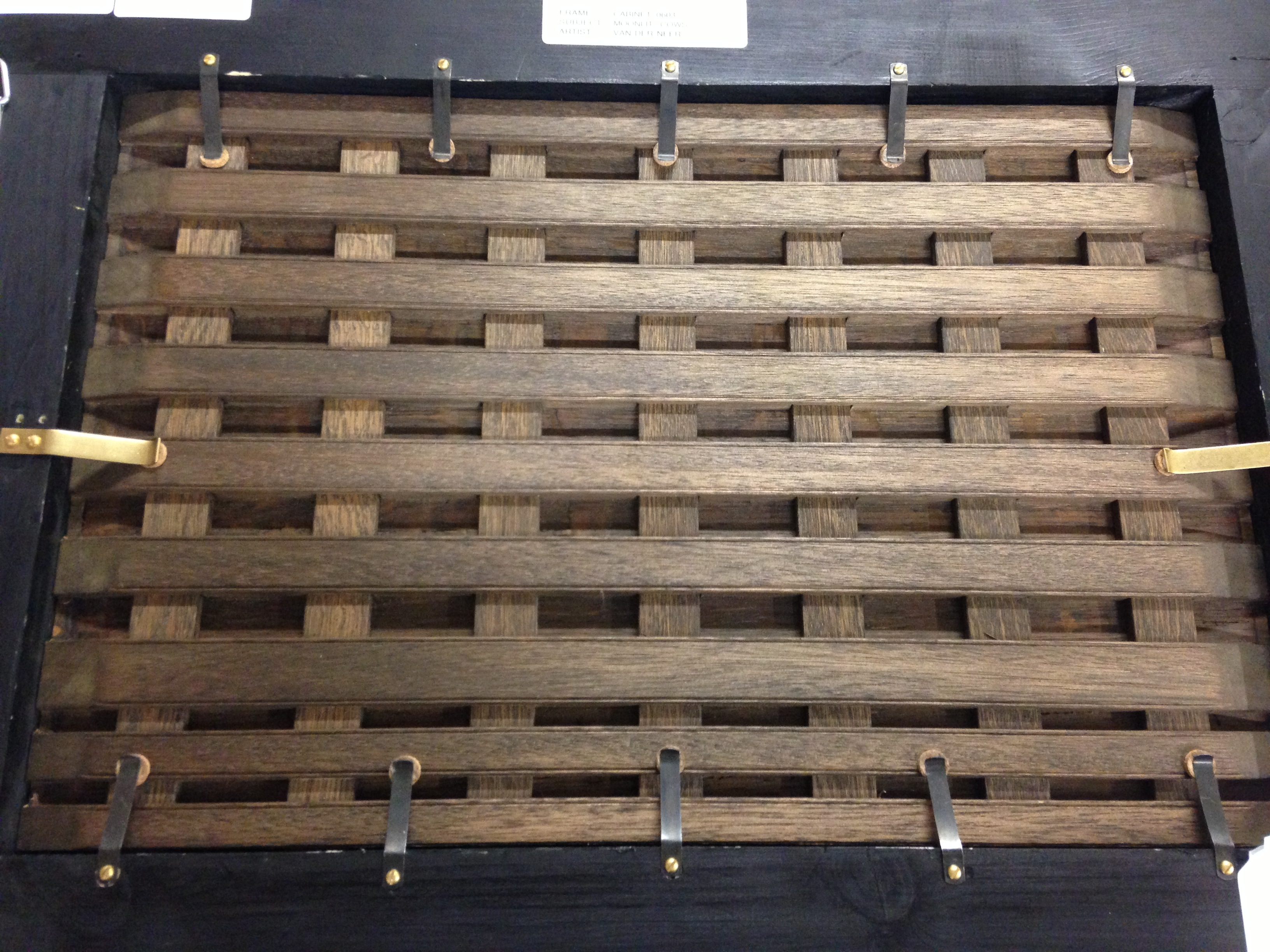 This illustrates the finished process of cradling on a panel painting by Aert van der Neer